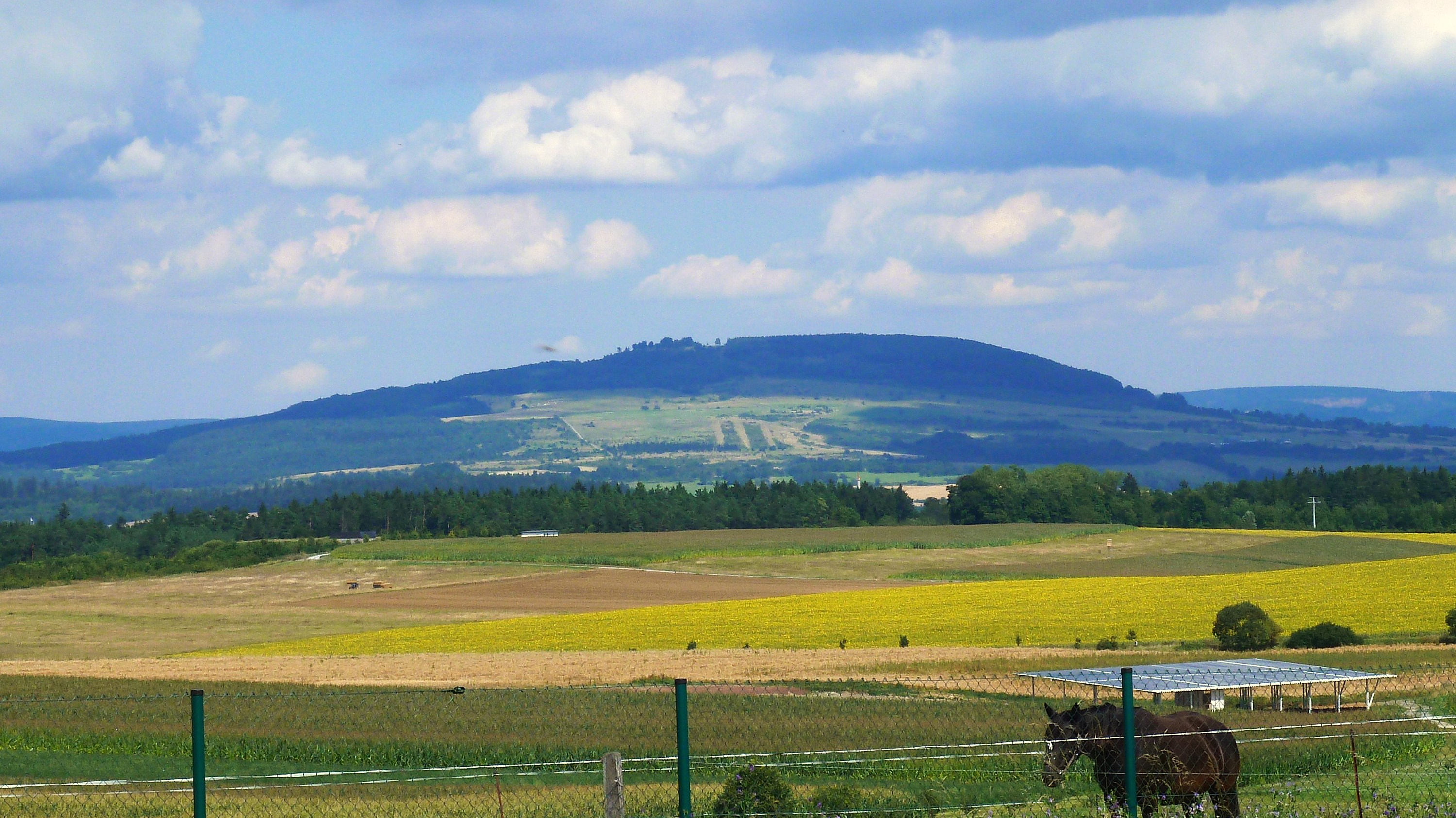 Mountain Dolmar near city Meiningen, Germany